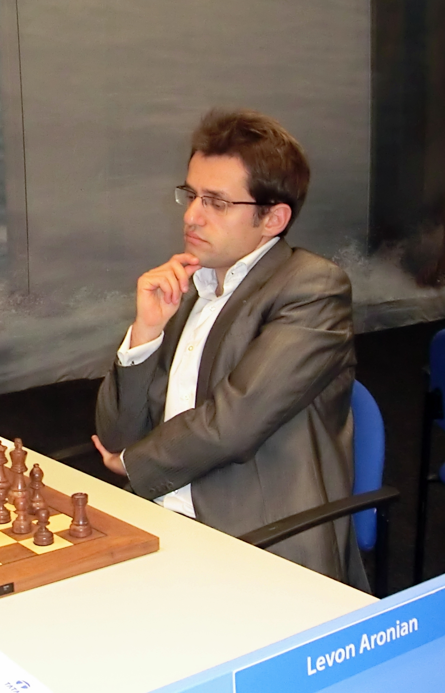 Levon Aronian, chess grandmaster from Armenia